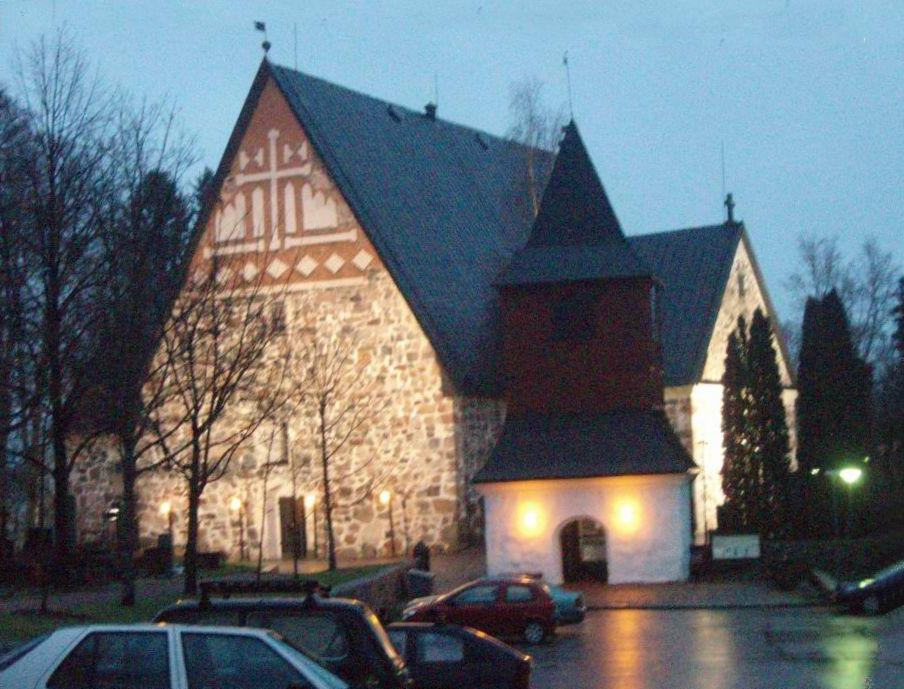 Espoo cathedral in twilight